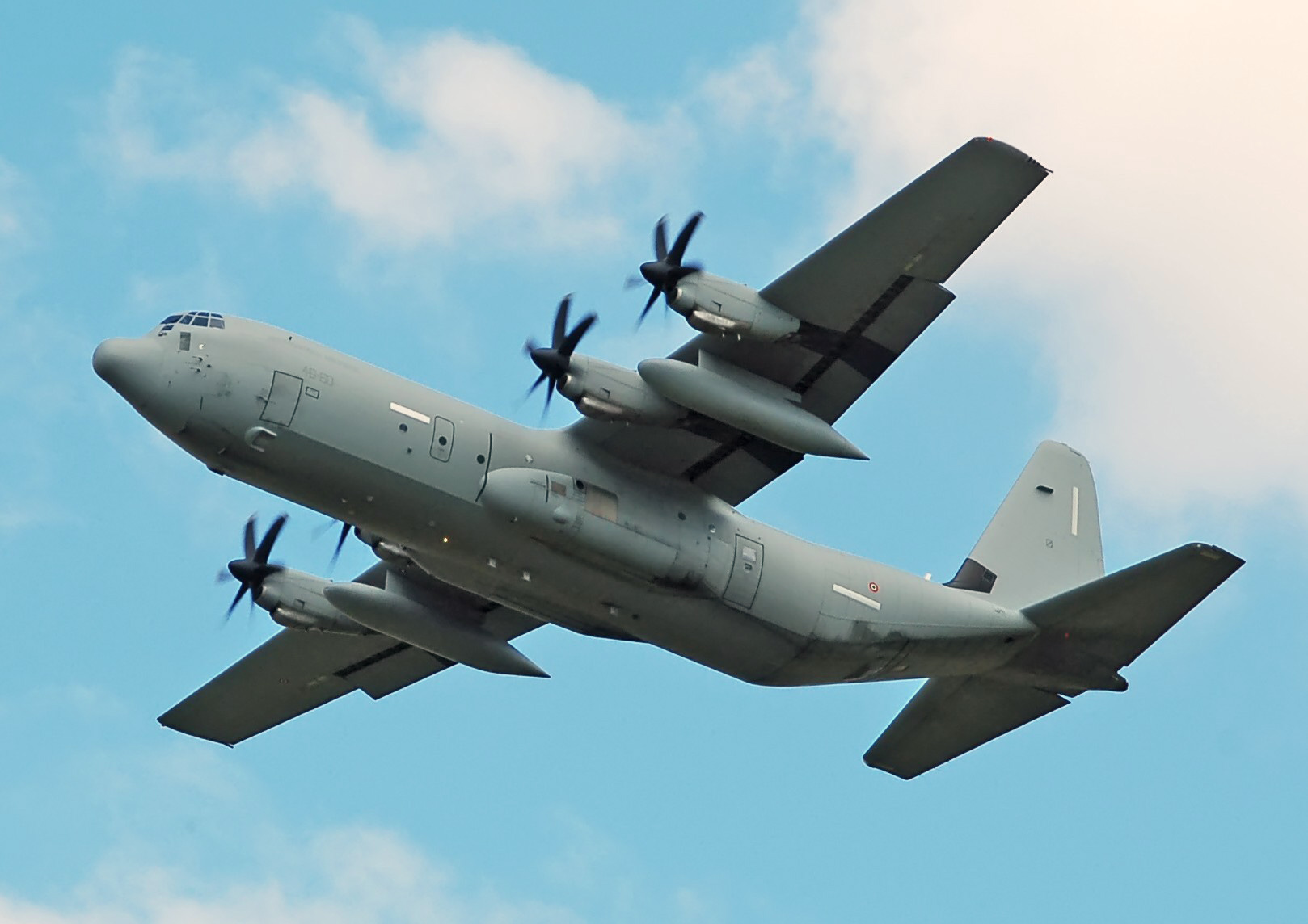 Italian Air Force Hercules C-130J-30 (code 46-60) departs the 2014 Royal International Air Tattoo, RAF Fairford, Gloucestershire, England.